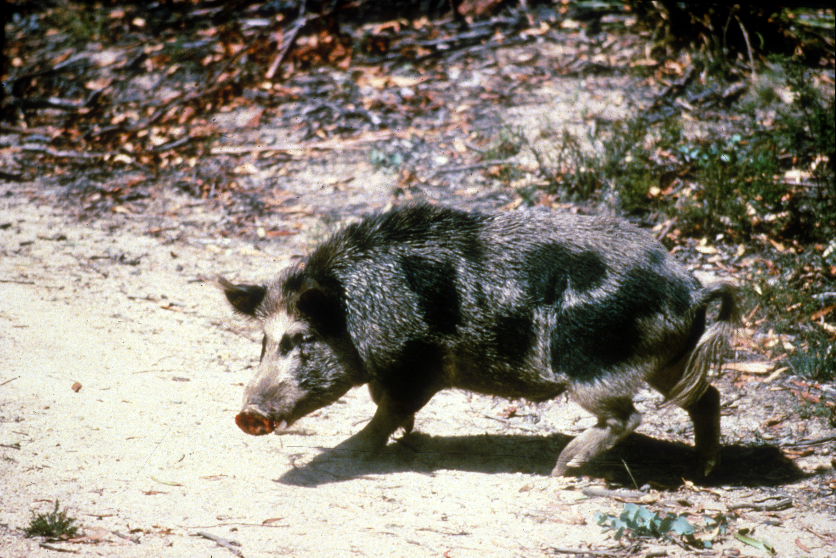 Feral pig (Sus scrofa) Near Canberra, ACT